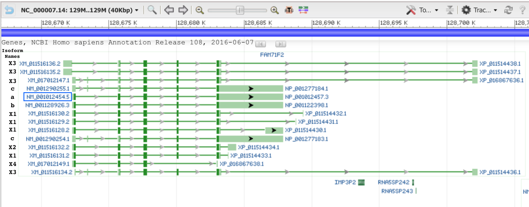 Annotated transcripts from NCBI gene for FAM71F2